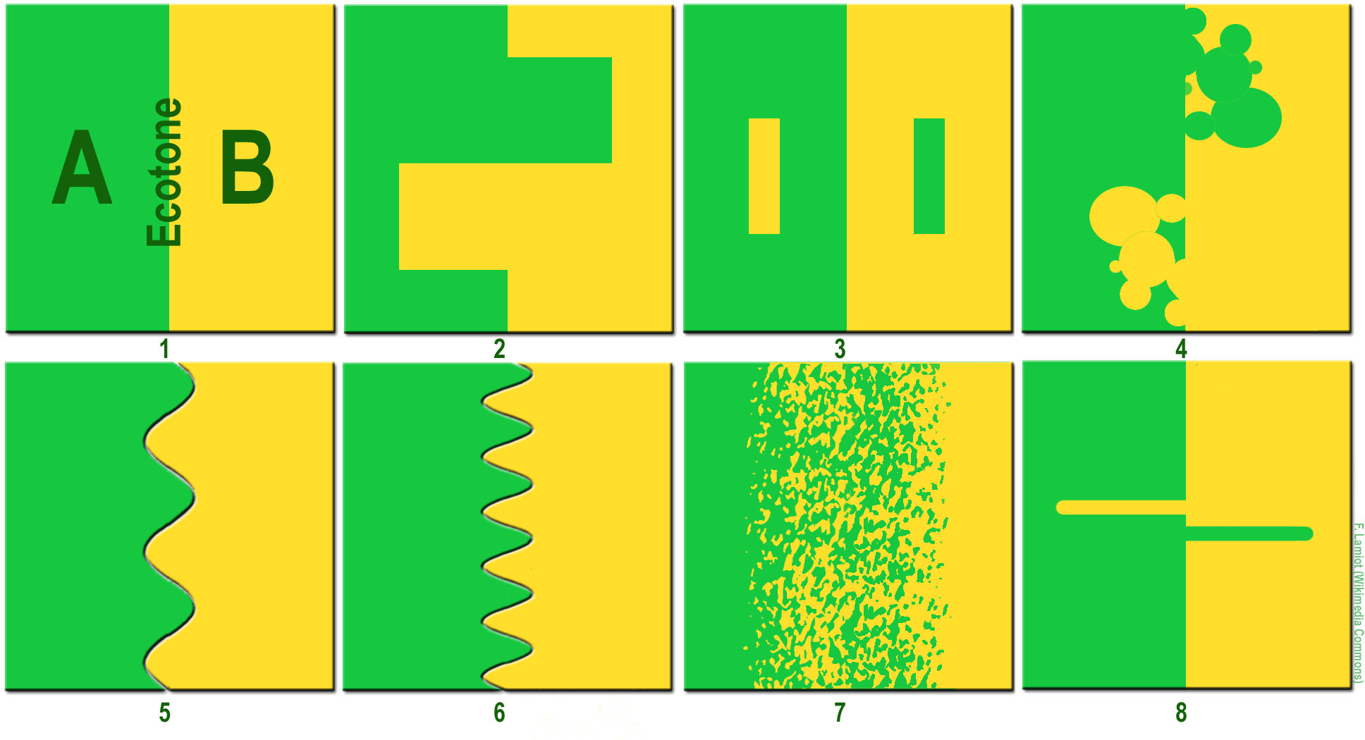 Schematic representation of different types of ecotones on a square surface. In each case, yellow and green surfaces (schematically two different ecological habitats, eg the savannah and forest, or forest and water, or... ) are similar, but the length of the ecotone between them varies greatly from case to case. Note on the impact of the "pattern" of each patch of "color" on the "percolation capacities" of certain species in the landscape ; (compared to the surface considered )